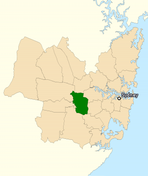 This image incorporates data that is: © Commonwealth of Australia (Australian Electoral Commission) 2009 Division of Blaxland 2010